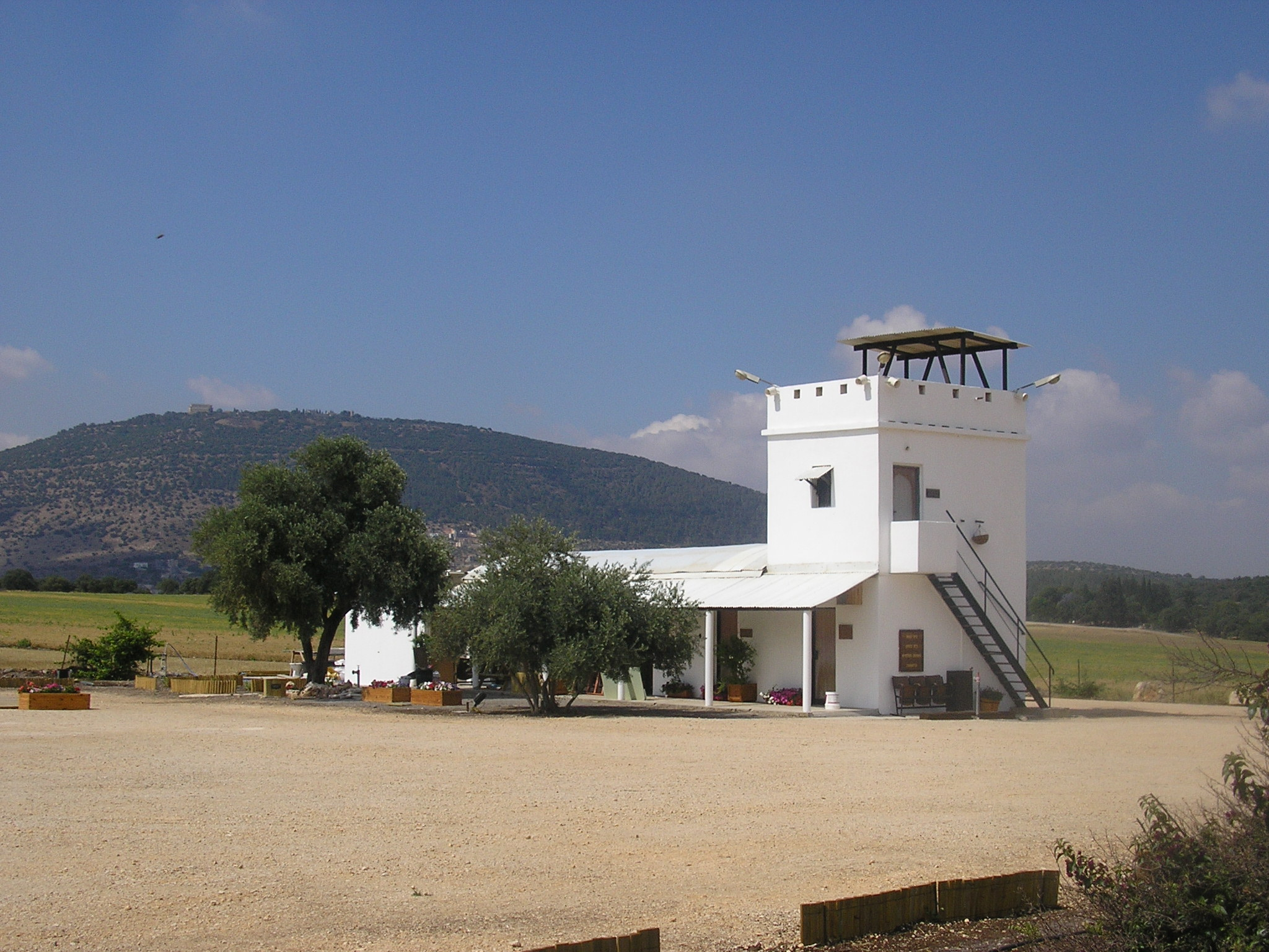 מרכז למורשת הפלמ"ח בבית קשת - a center dedicated to the Palmah (striking force in Mandatory Palestine) legacy in Beit Hakeshet